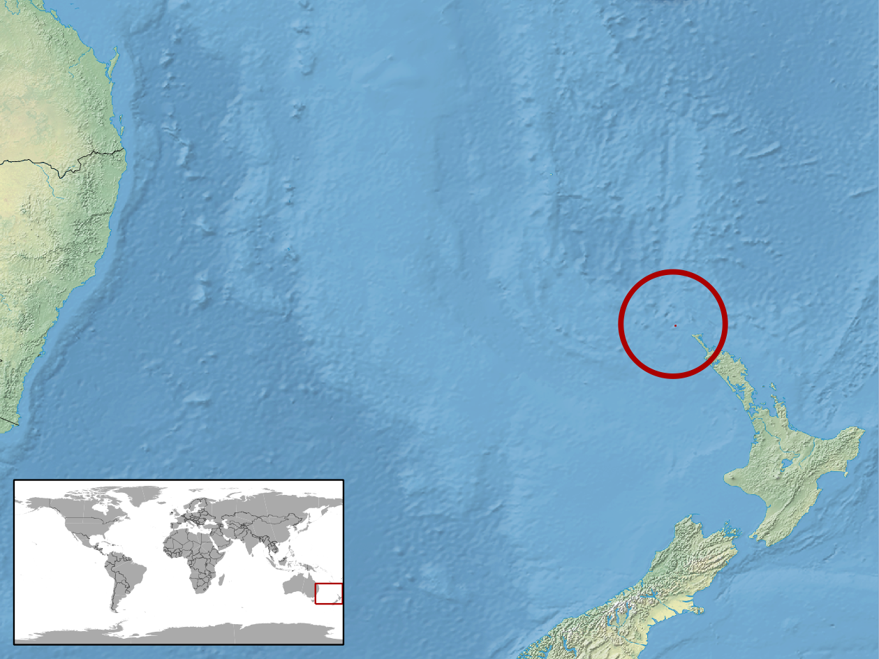 geographic distribution of Oligosoma fallai